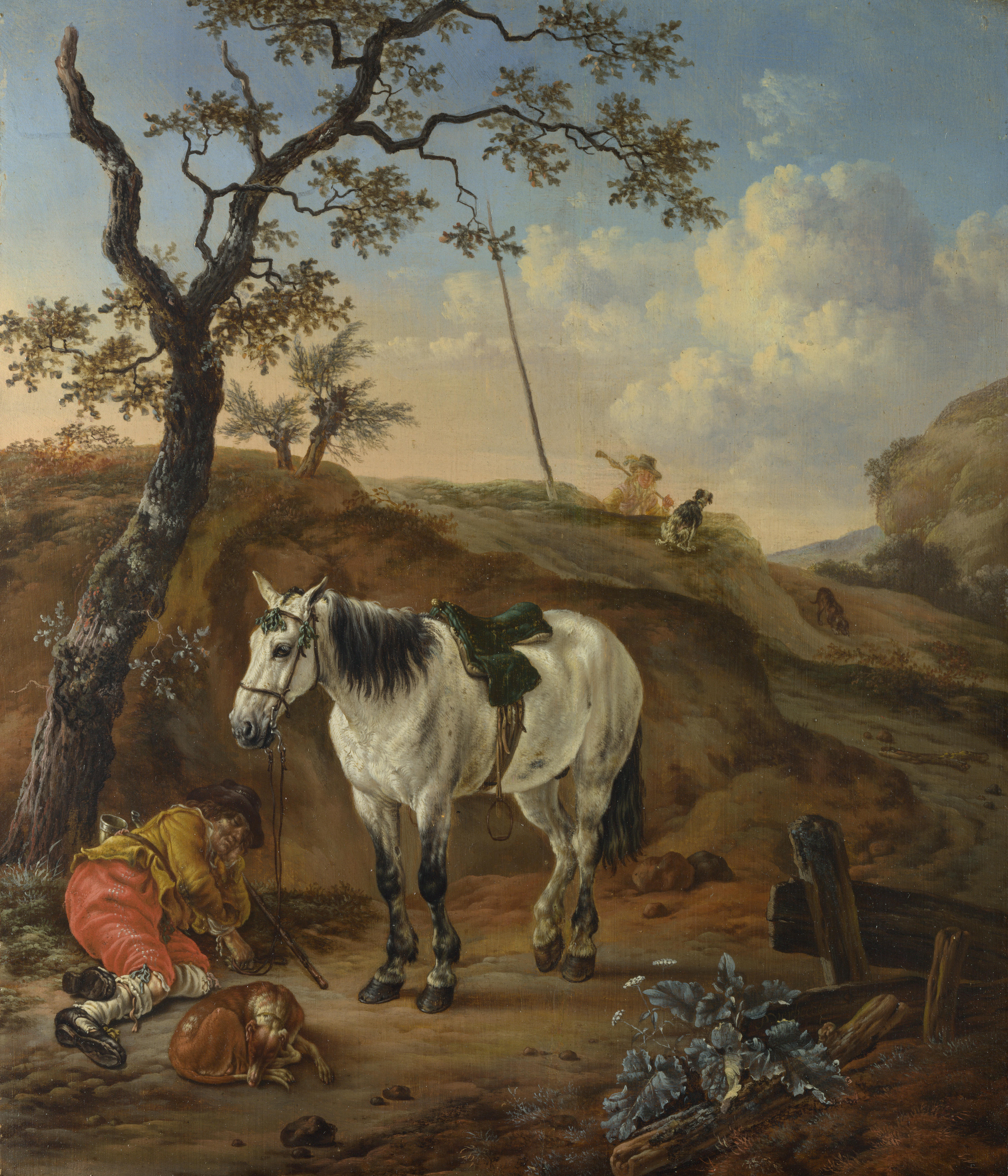 A White Horse standing by a Sleeping Man. about 1652. Pieter Cornelisz. Verbeeck. National Gallery, London. Oil on oak. 31.8 x 27 cm. NG1009